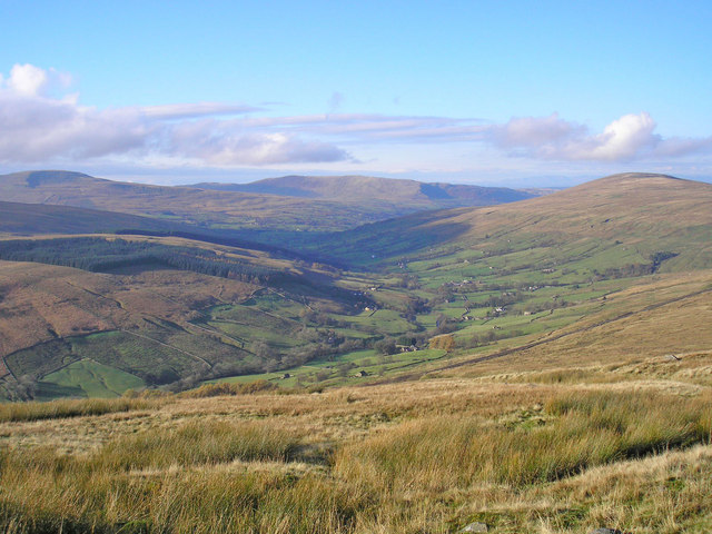 Dentdale Seen from the Driving Road which skirts Great Knoutberry. Middleton Fell forms the central horizon. Rise Hill is on the right. Great Coum is the distant hill on the left.